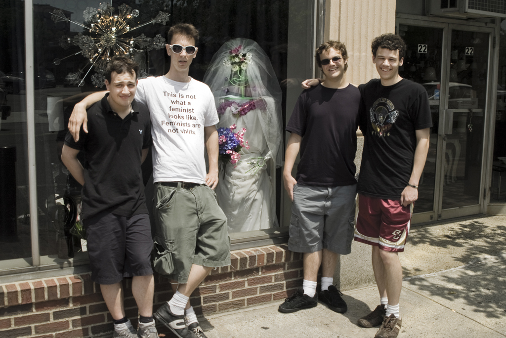 The comedy troupe, Asperger's Are Us, in Salem, MA.